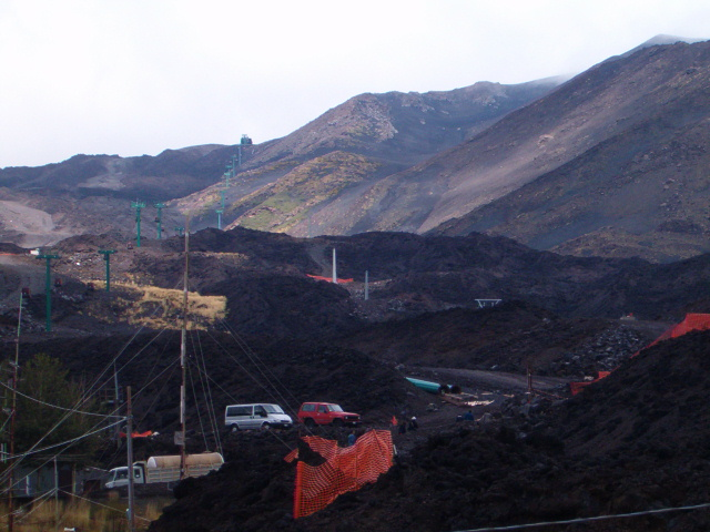 Mount Etna: Cablecar to the central craters